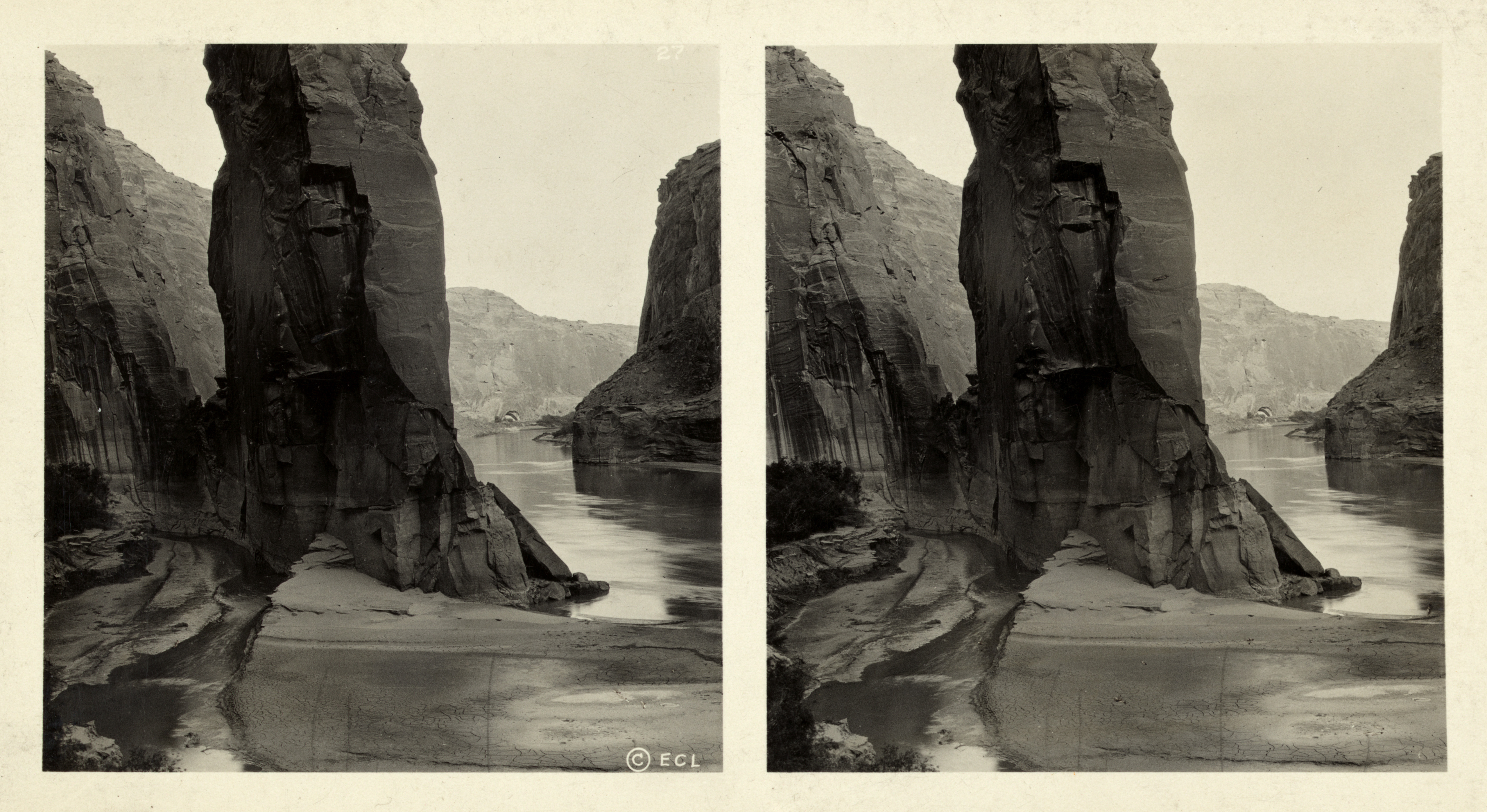 Sentinel Rock at the mouth of Wahweap Creek, Glen Canyon, Utah.